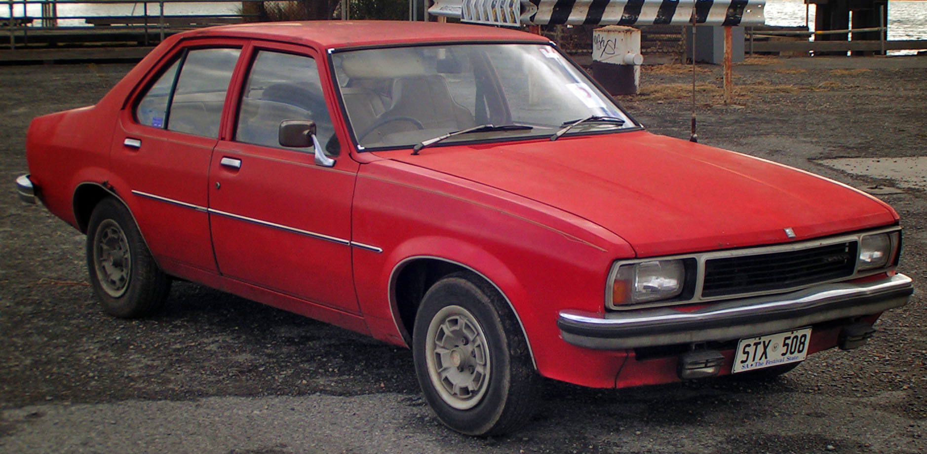 1978–1980 Holden UC Sunbird.